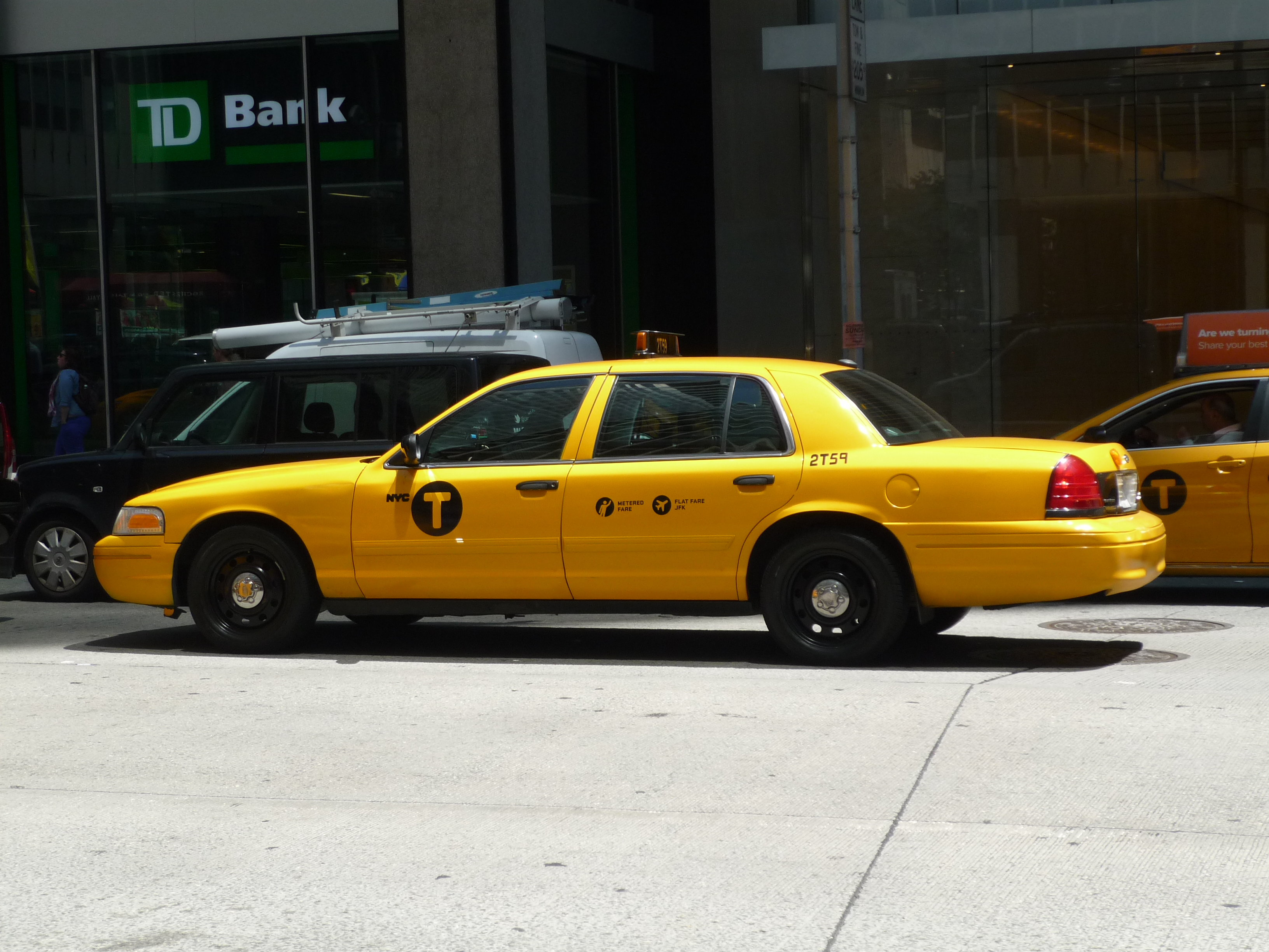 A pretty clean looking Ford Crown Victoria moving up 6th Avenue.